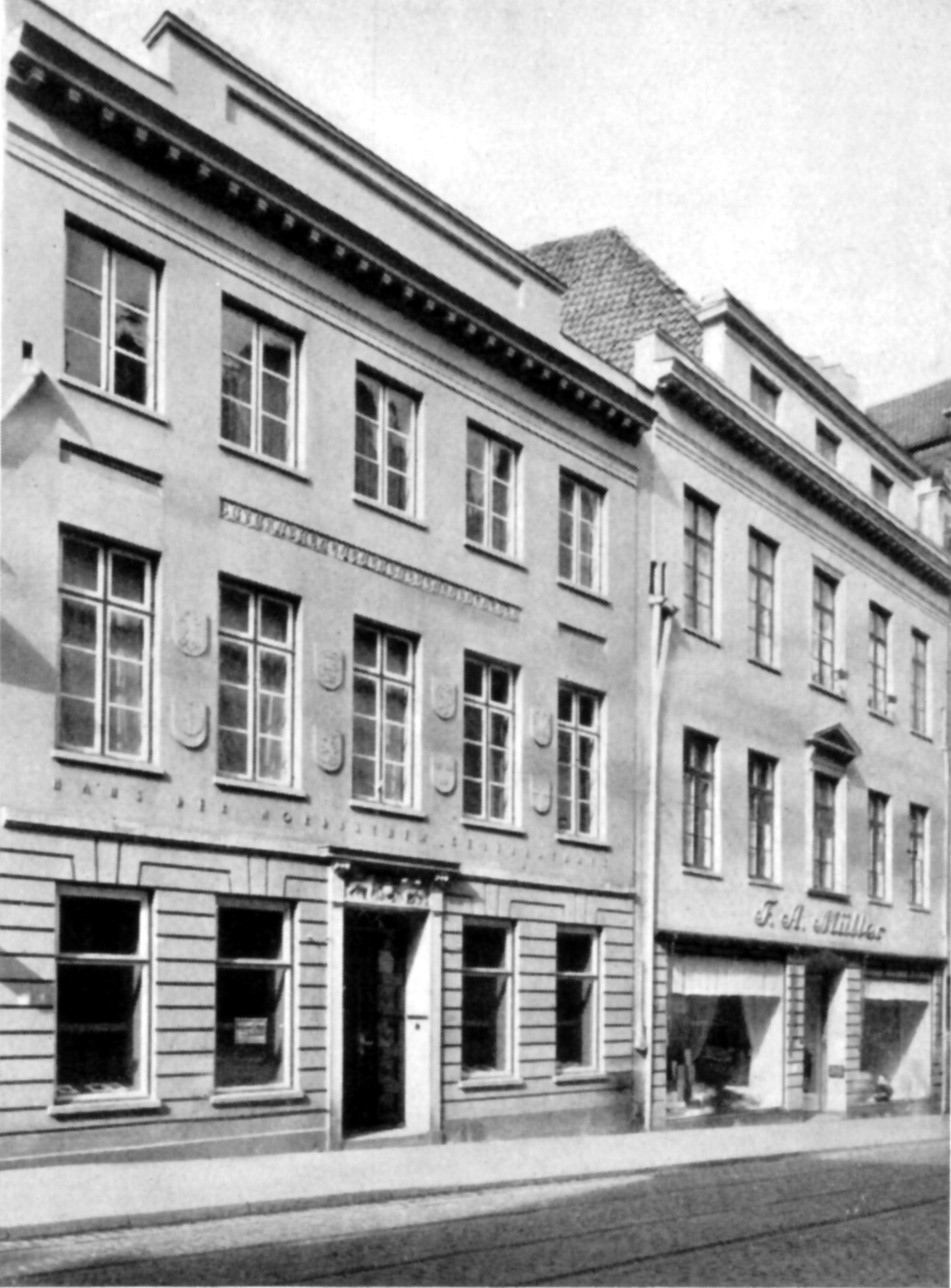 The houses Breite Straße No. 50 (left) and 48 (right) in Lübeck; destroyed in 1942